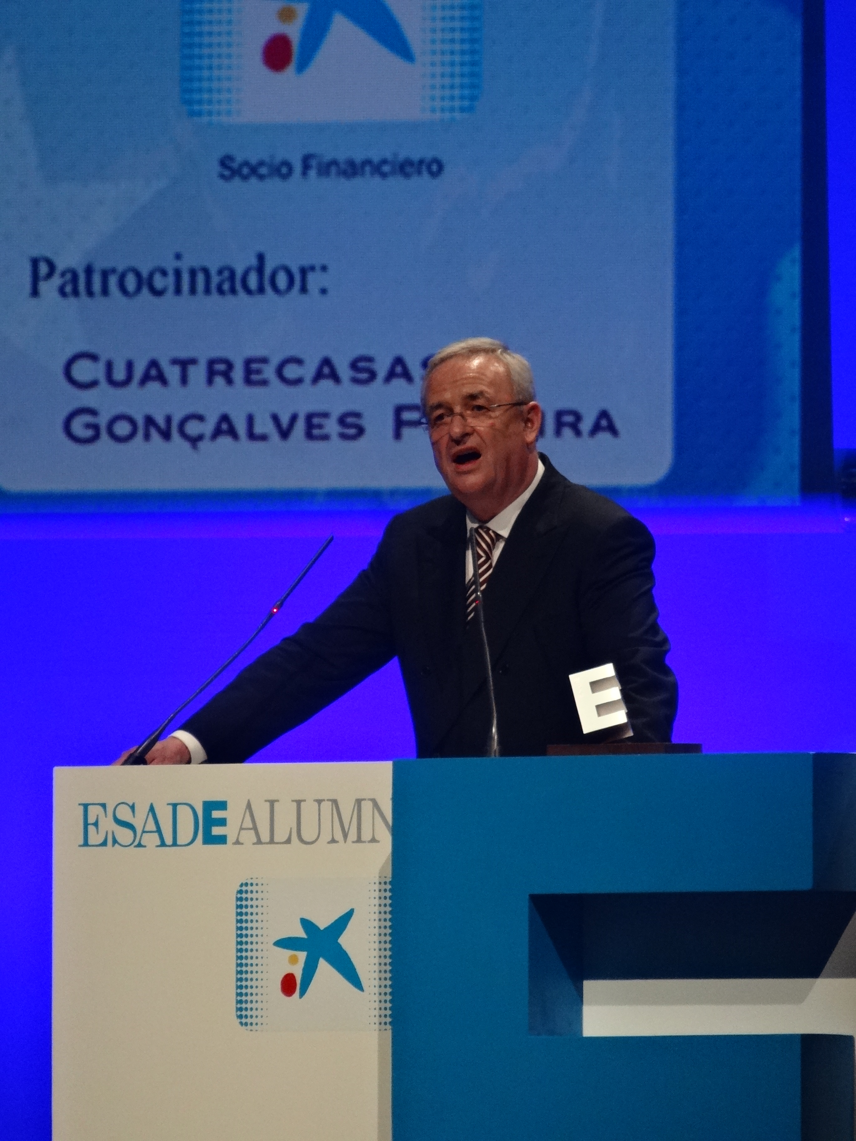 Martin Winterkorn as a speaker at the XIX Esade Alumni meeting in Barcelona, May 2014